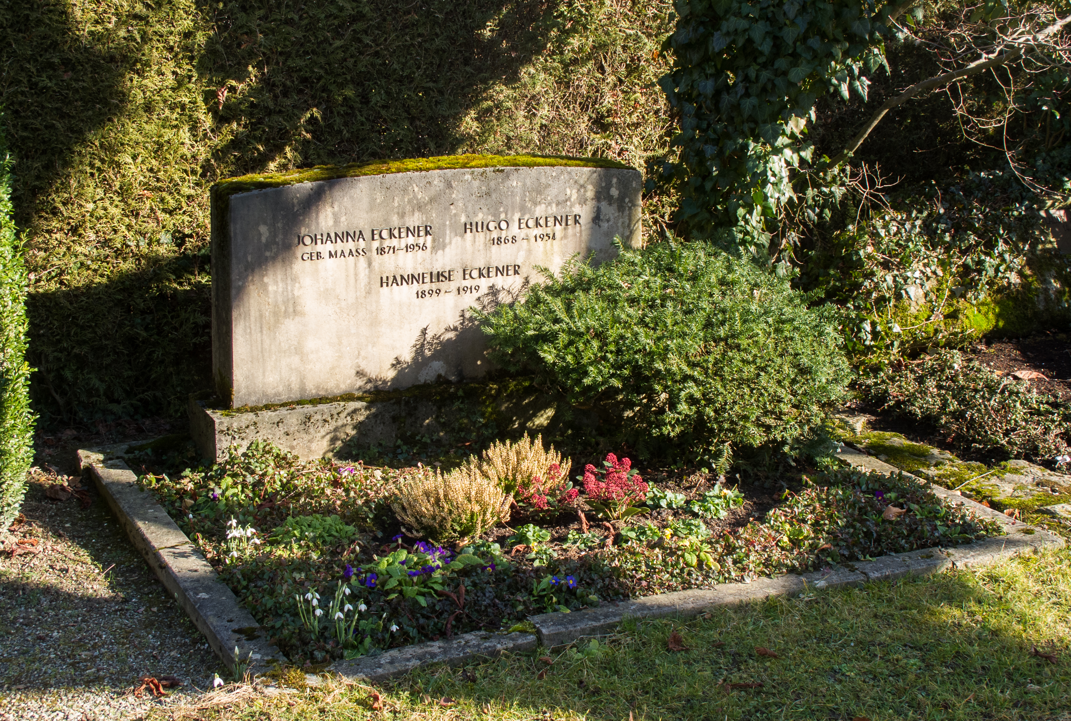 Grave of family Eckener, cemetery Friedrichshafen, Bodenseekreis, Baden-Württemberg, Germany